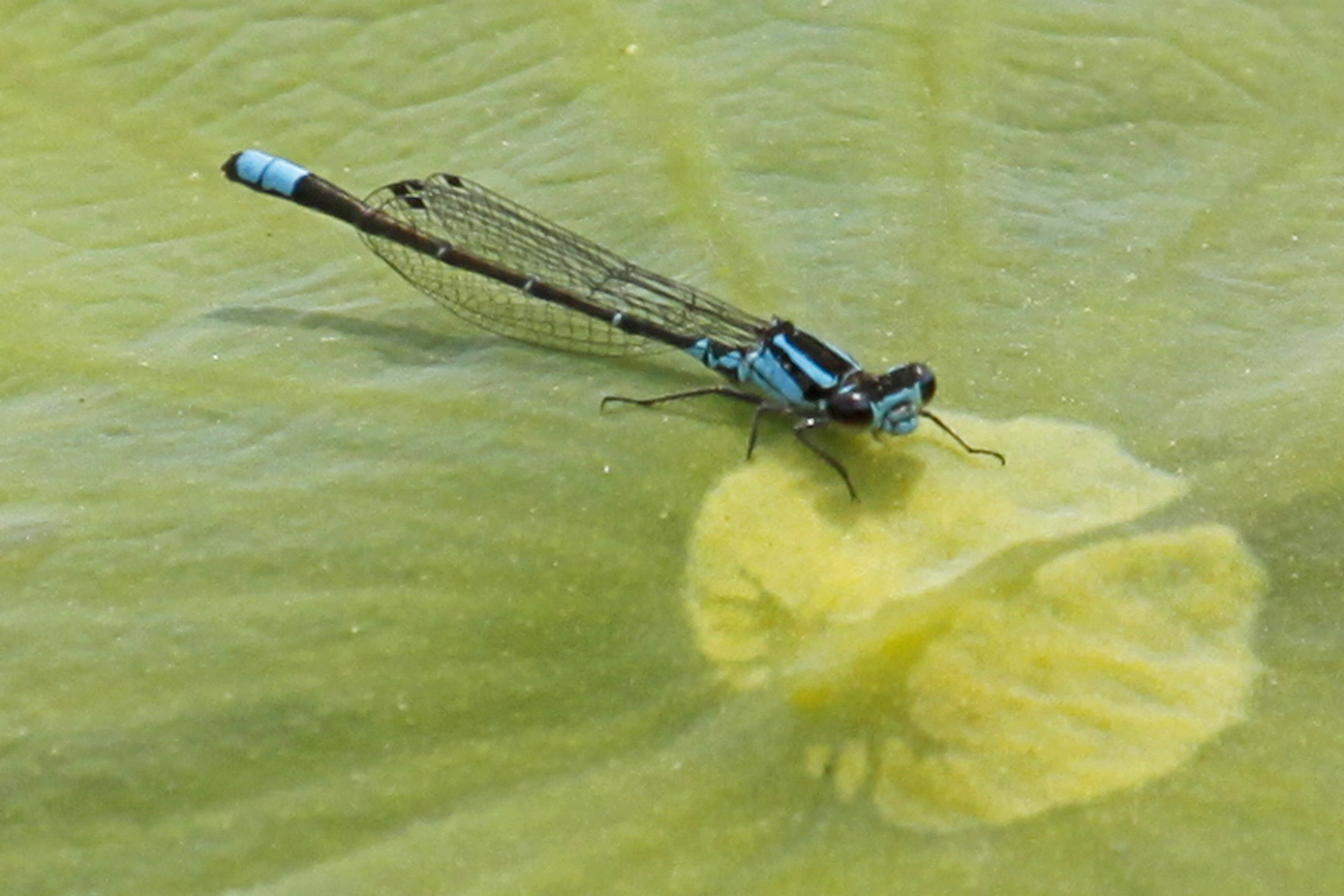 Skimming Bluet - Enallagma geminatum, Water Way Farm, Lovettsville, Virginia